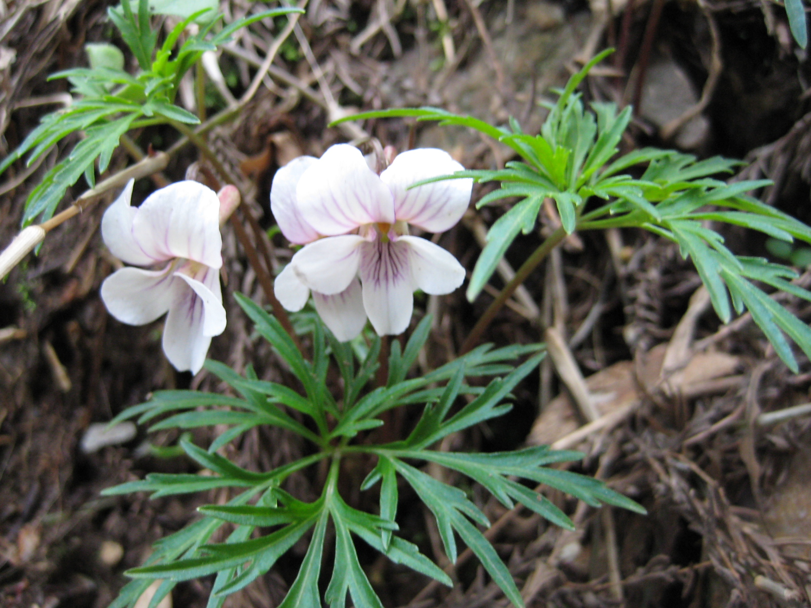 I'm not sure if it is "Viola chaerophylloides var. sieboldiana", studied from here: (Taken in Mt. Lushan)